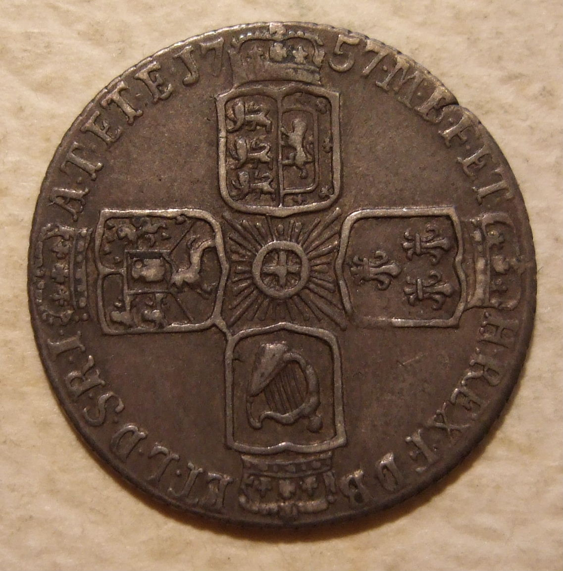 GREAT BRITAIN, GEORGE II 1757 ---SIXPENCE a